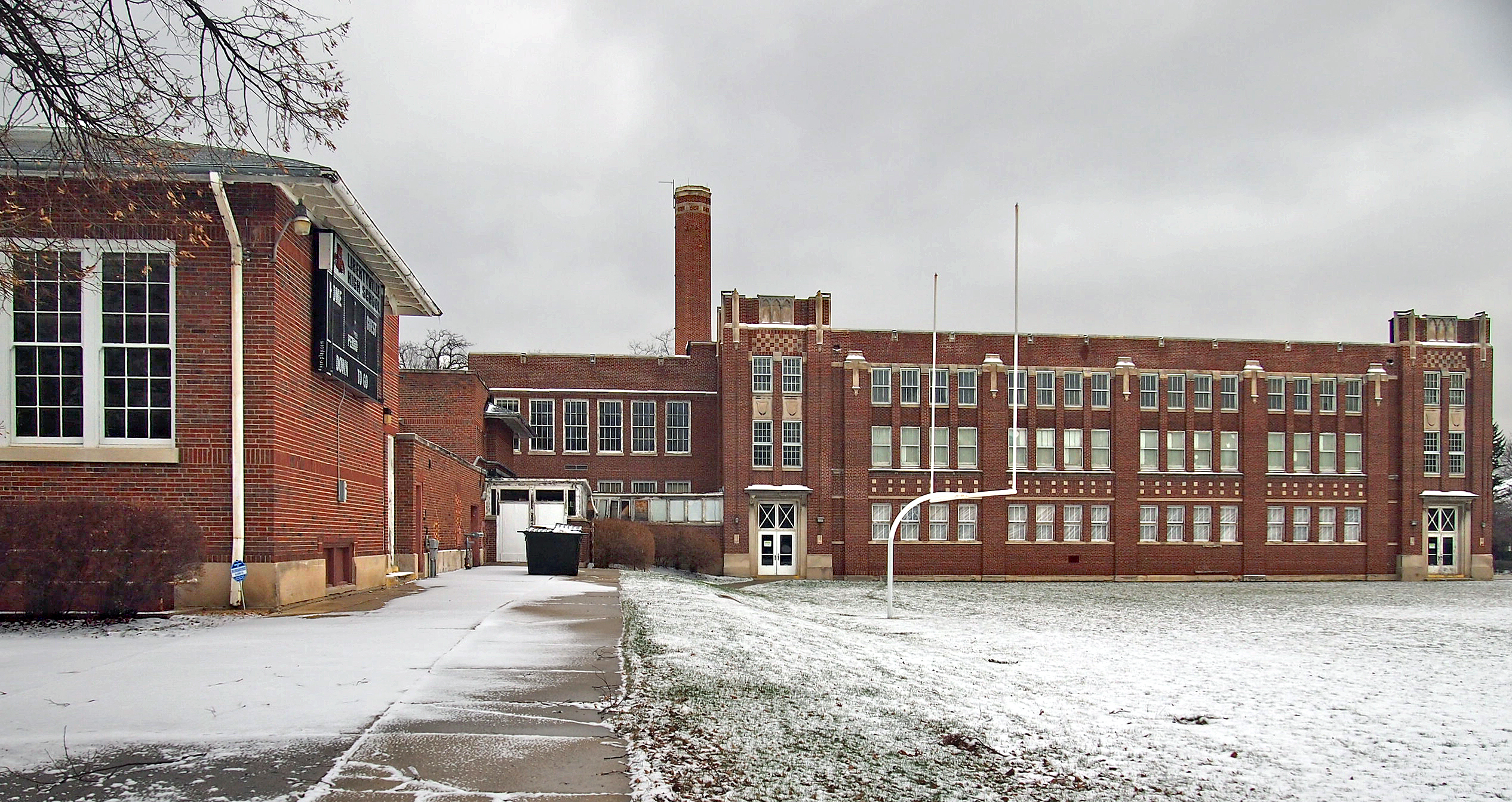 Brainerd Building, Libertyville, Illinois, USA